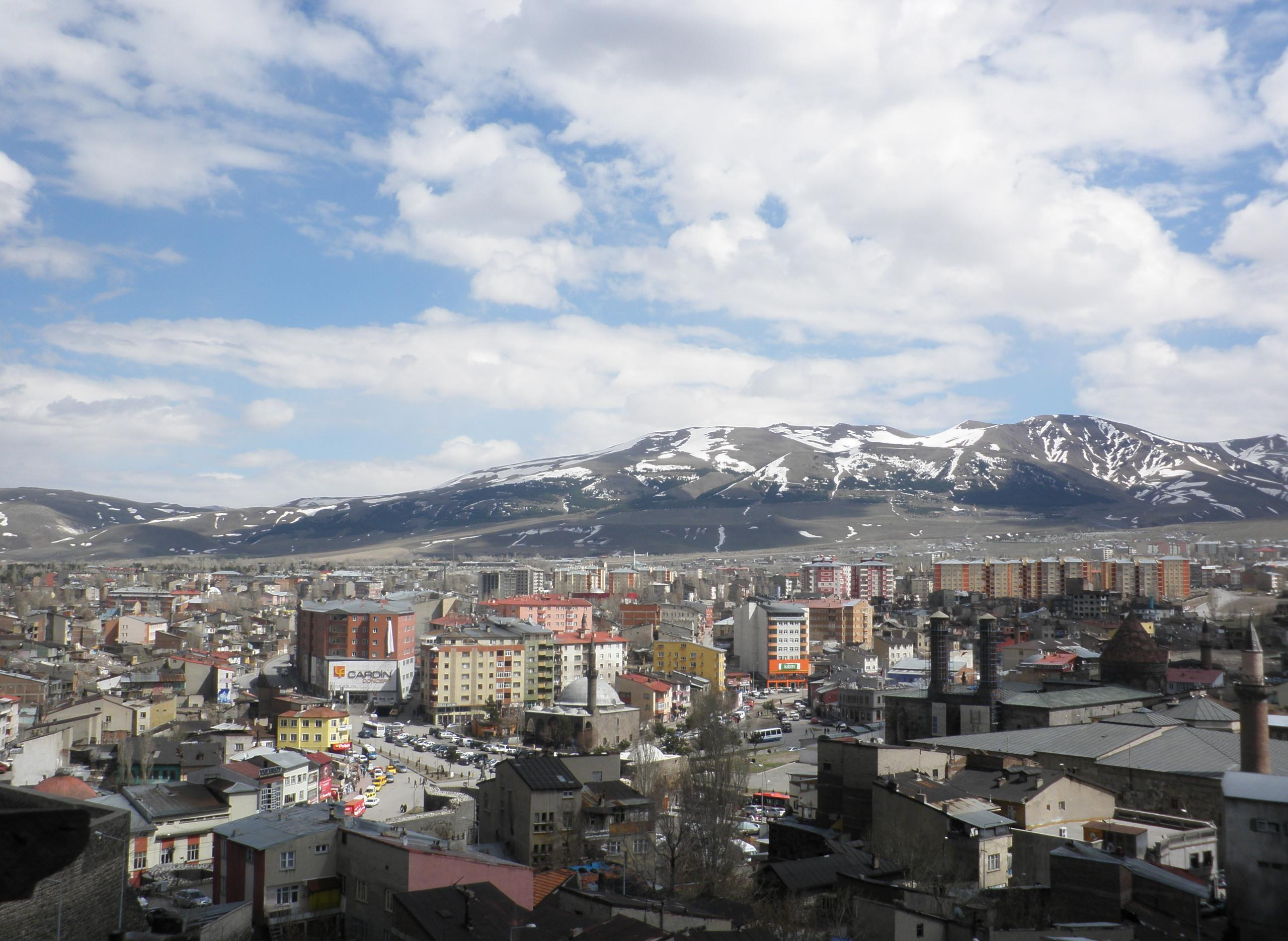 Erzurum view from Castle of Erzurum.